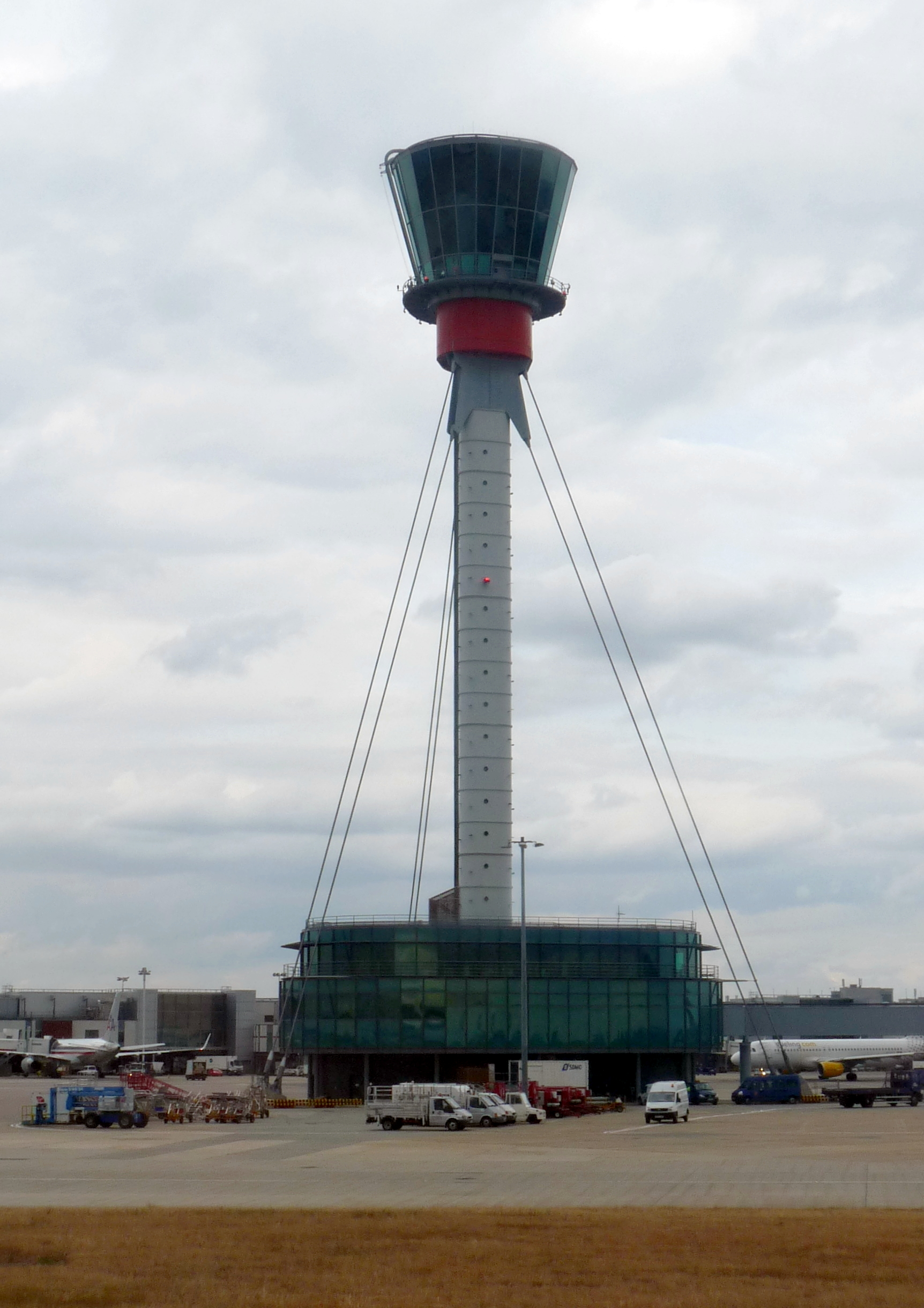 Tower of London Heathrow Airport